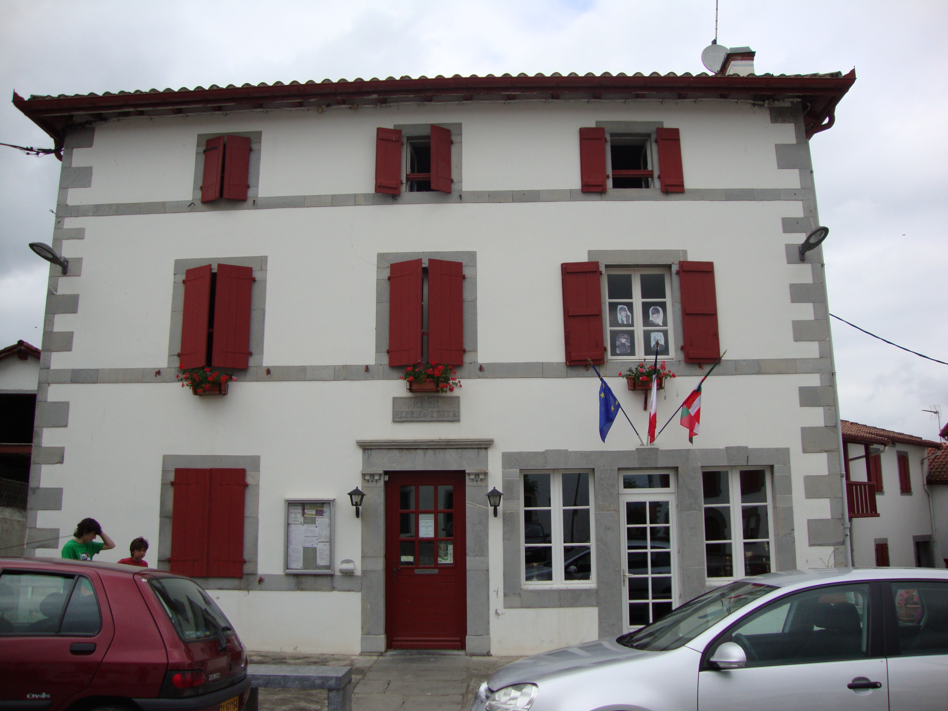 Irissarry (Pyr-Atl, Fr) town hall